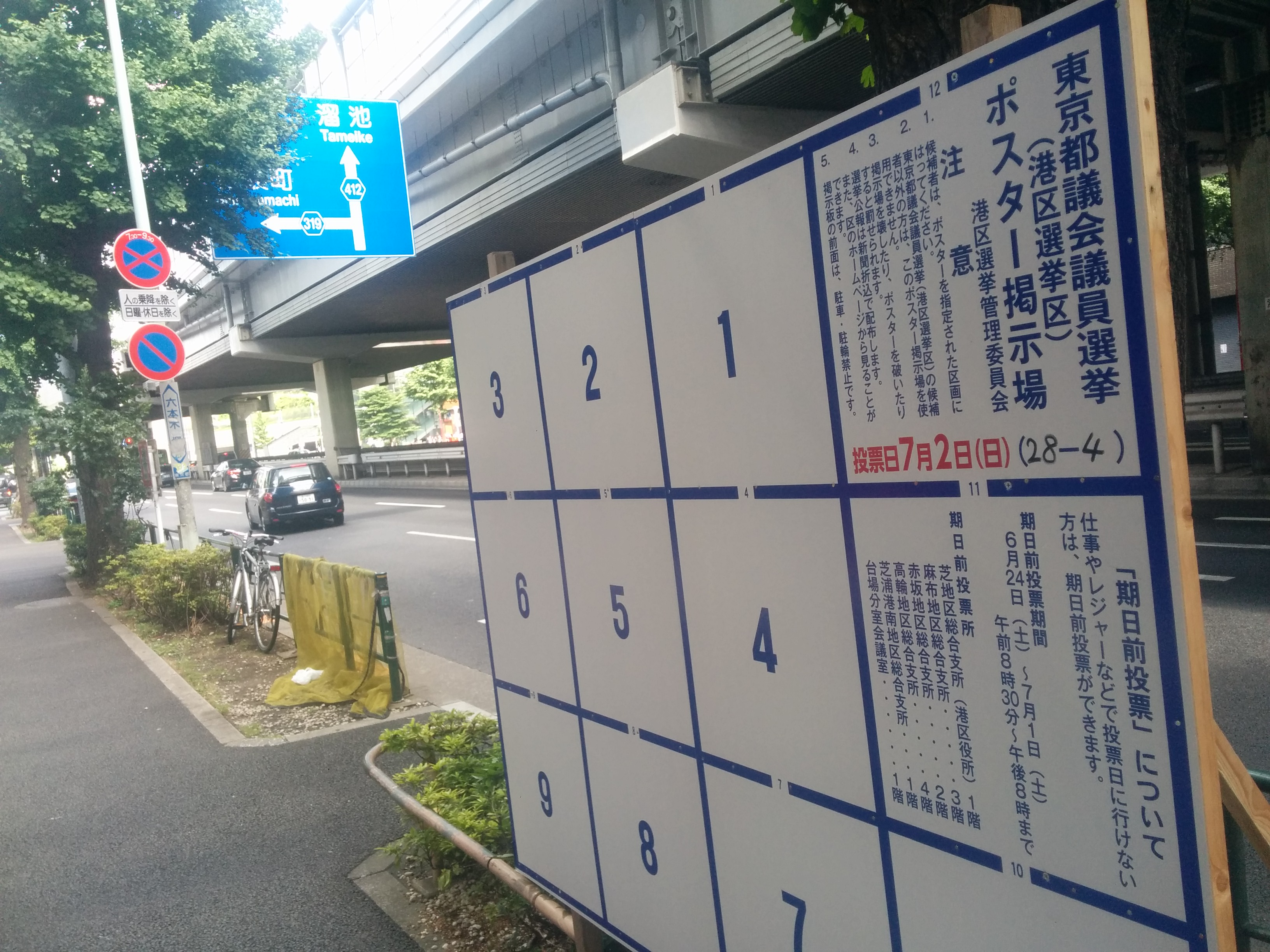 Poster before elections